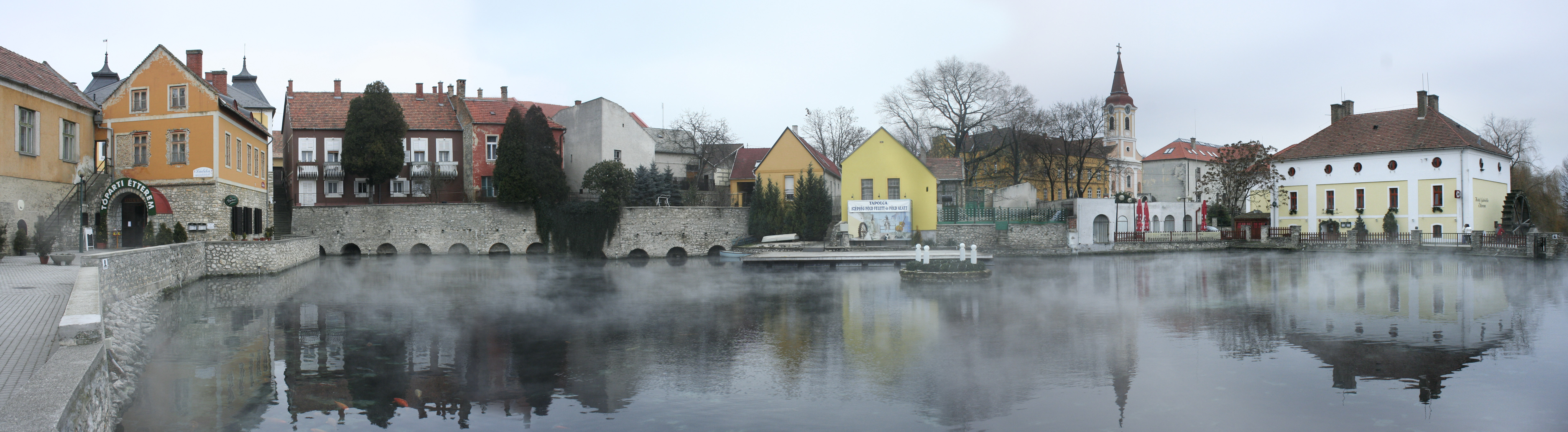 Winter-panorama Tapolca.